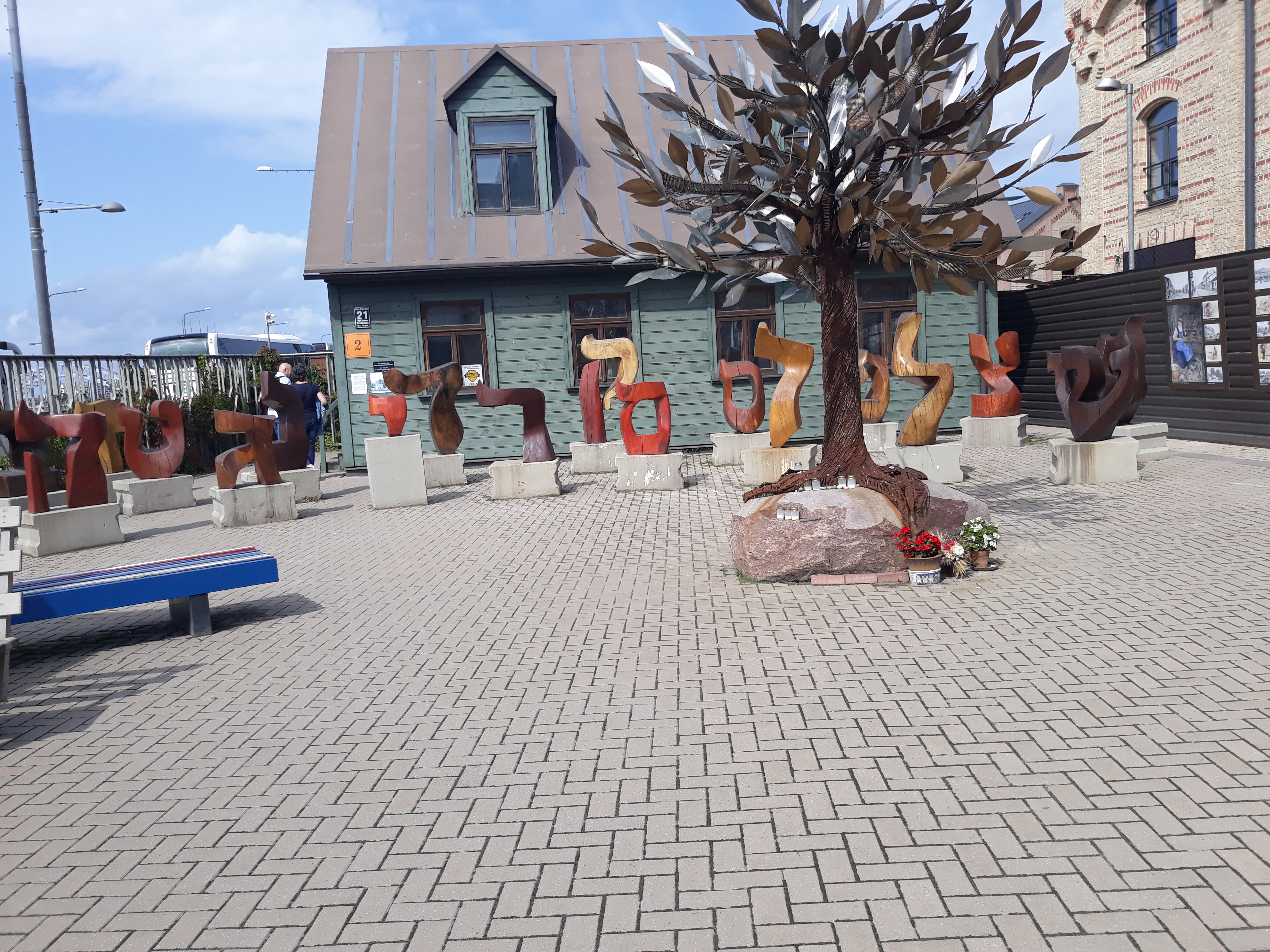 Riga Holocaust Museum